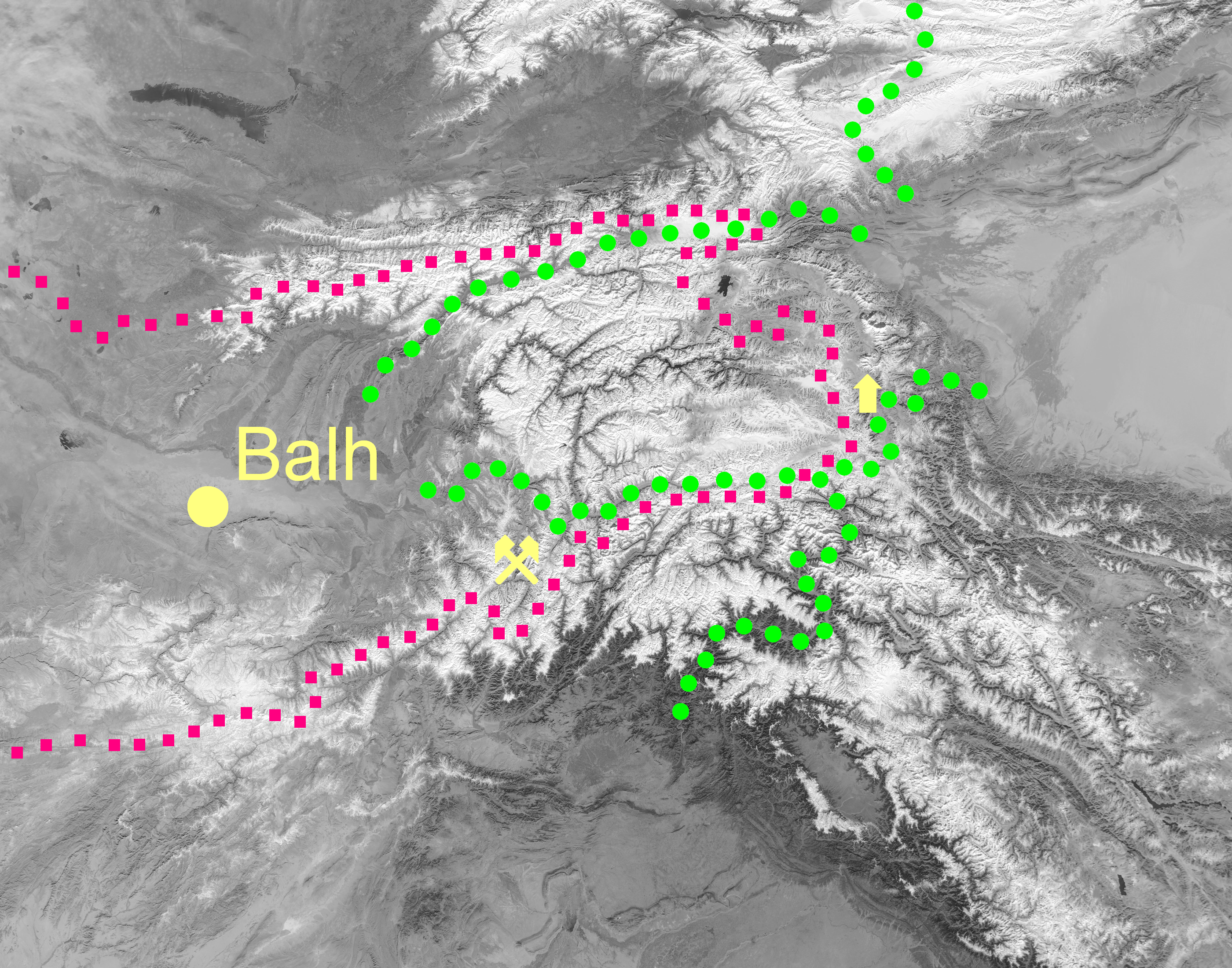 Historical map of Mount Imeon based on the satellite image Hindu Kush satellite image, and drawing from Acad. Suren T. Eremian’s reconstruction (English version; scanned Armenian version) of the original mapping of the 7th century Armenian geography ‘Ashharatsuyts’ by Anania Shirakatsi. The pink line shows the approximate border of the Bulgar lands, the green lines delineate the four parts of Mount Imeon according to the geographic description of the mountain, the yellow ‘hut’ is the Stone Tower, and the crossed hammers show the lapis lazuli mines.